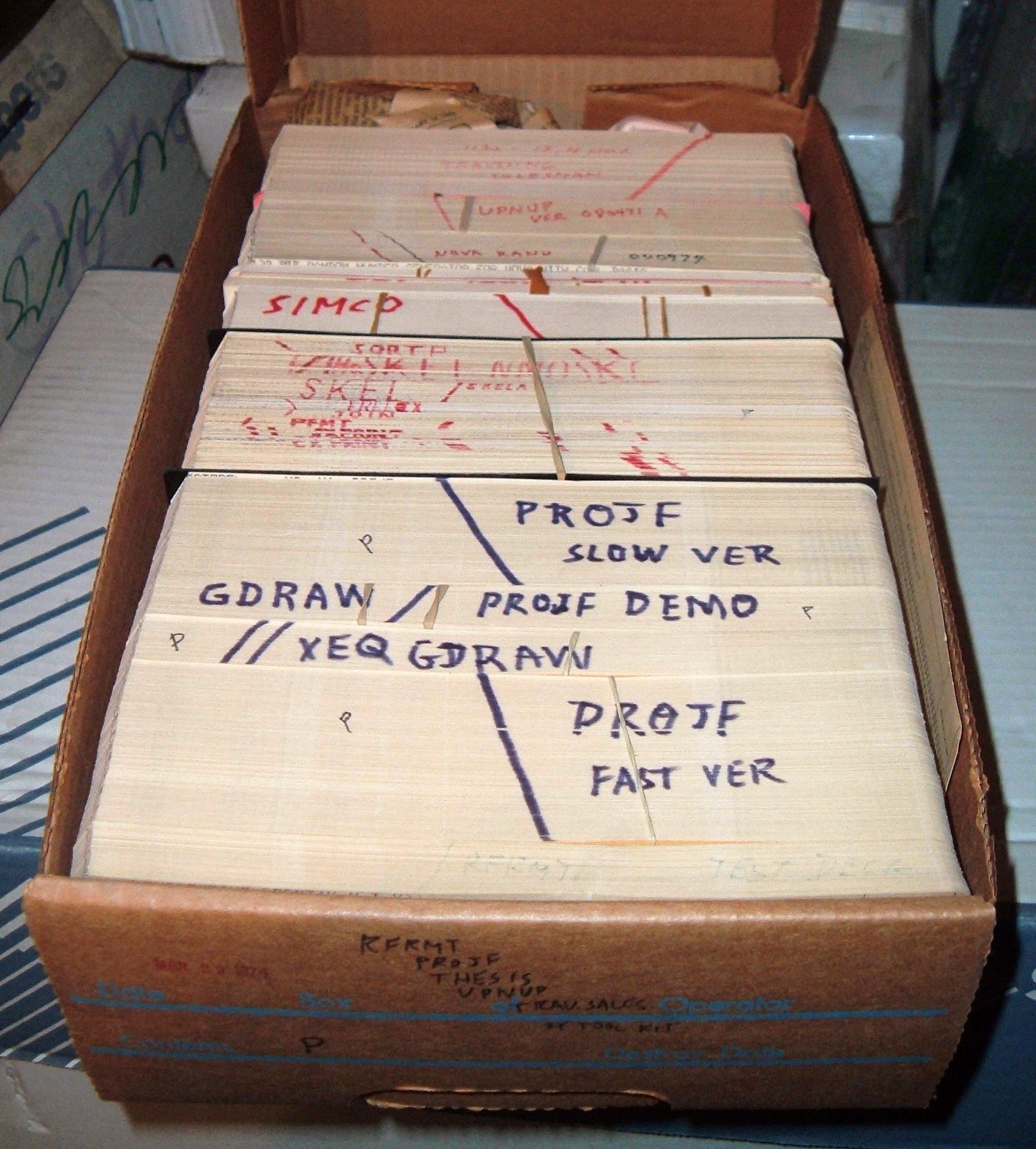 Box of Punched cards from 1970s. This is a picture I took of a box of computer programs in punched card form from the early 1970s. The deck in the middle shows what a program deck looked like after extensive editing and debugging. The cardboard box was originally used to ship blank cards and held 2000 cards.